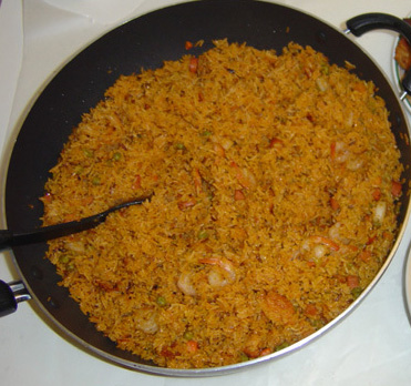 Jollof rice, also called 'Benachin' meaning one pot in the Wolof language, is a popular dish all over West Africa.